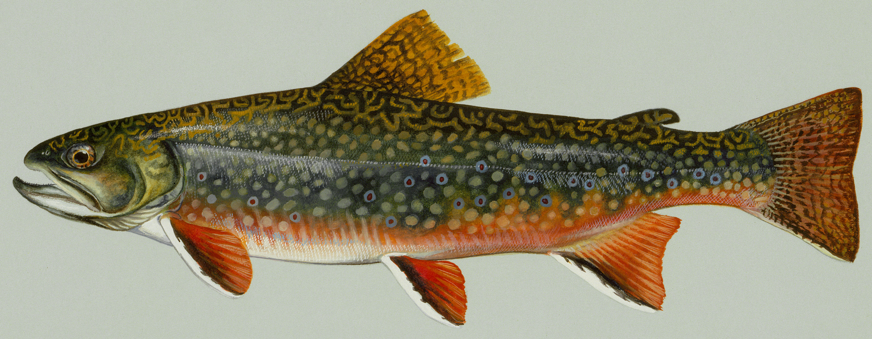 Brook trout (Salvelinus fontinalis)